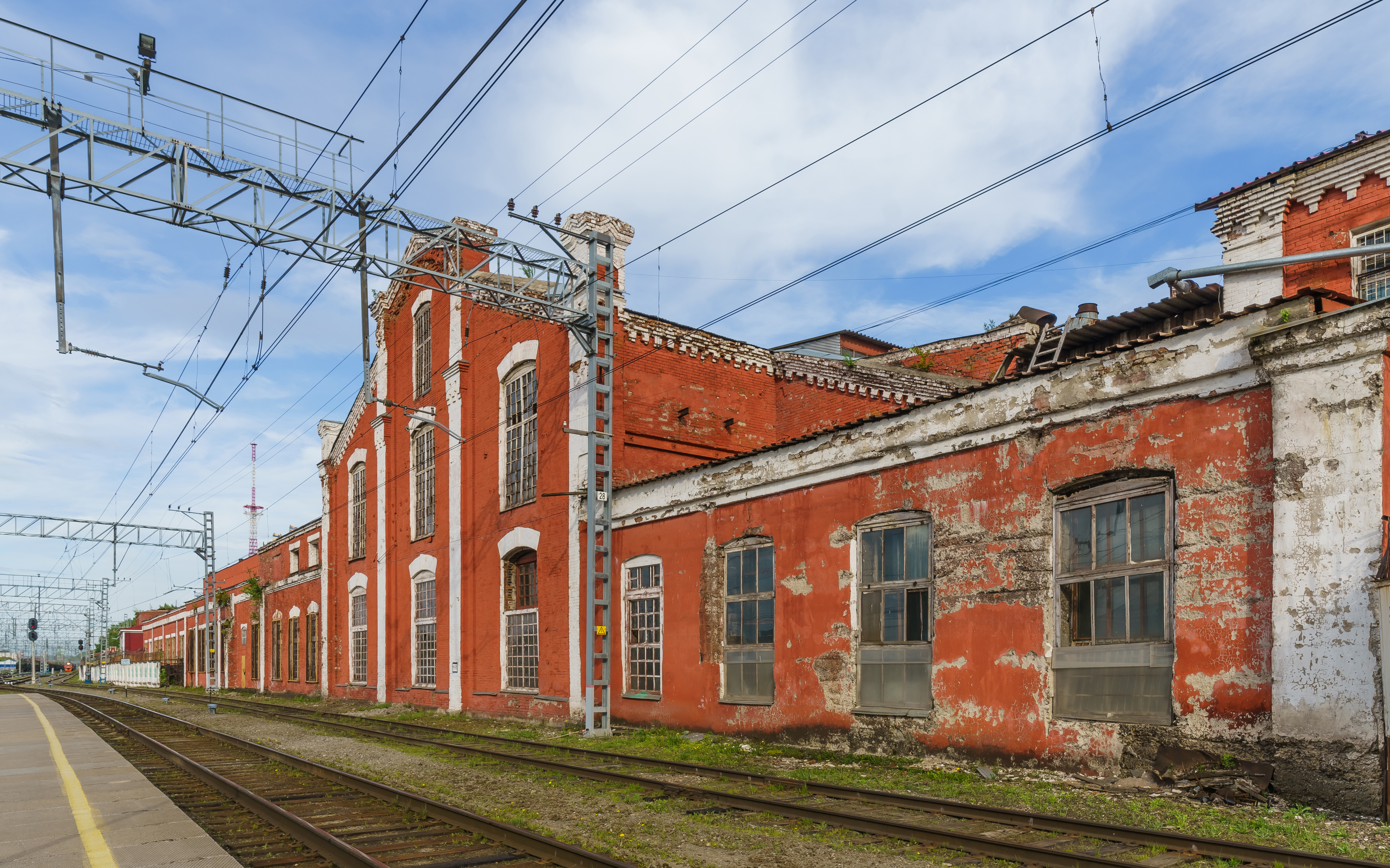 Factory building at Perm-I railway station in Perm, Russia